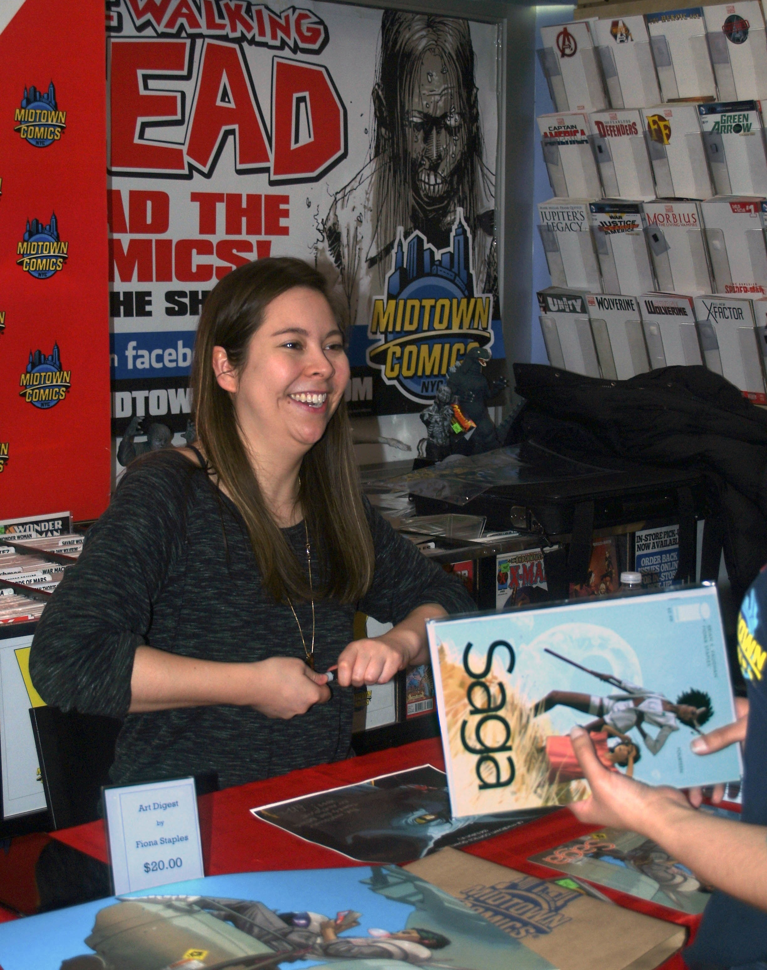 Canadian comic book artist Fiona Staples at an April 4, 2014 book signing at Midtown Comics Downtown in Manhattan. This photo was created by Luigi Novi. It is not in the public domain, and use of this file outside of the licensing terms is a copyright violation.